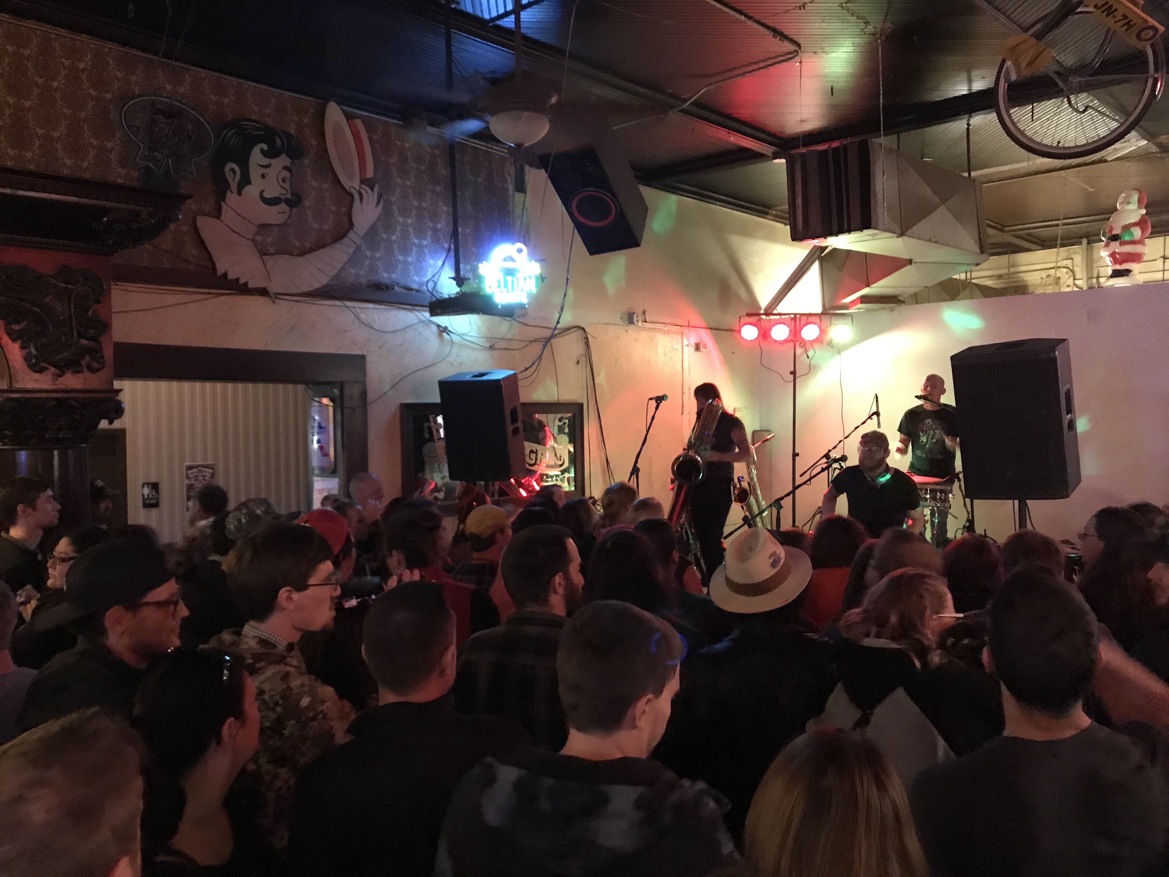 The Hooten Hallers performing in Great Falls, Montana on June 21, 2019